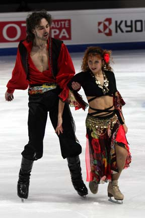 Grand_Prix_Final_2007_2008_Jana_KHOKHLOVA___Sergei_NOVITSKI OD - Folk, Country